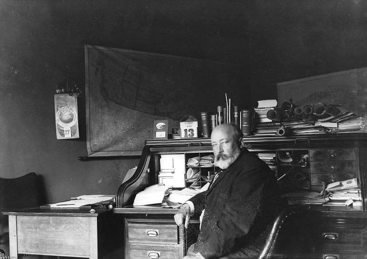 Photograph, Sir William Van Horne, C.P.R. official, Montreal, QC, 1904, A. H. Harris, Silver salts on film (nitrate ?) - Gelatin silver process - 11 x 15 cm